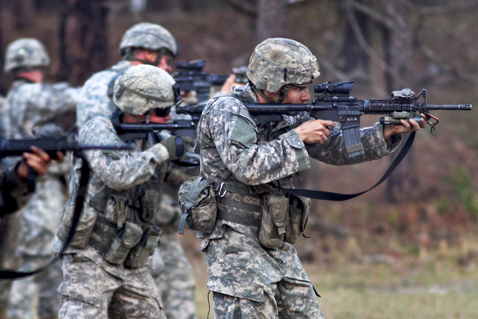 Scouts with the 82nd Airborne Division’s 1st Brigade Combat Team fire on a line during a course in advanced rifle marksmanship March 21-24, 2011, at Fort Bragg, N.C. The weeklong course emphasized adapting to battlefield problems by knowing one’s tools and capabilities.